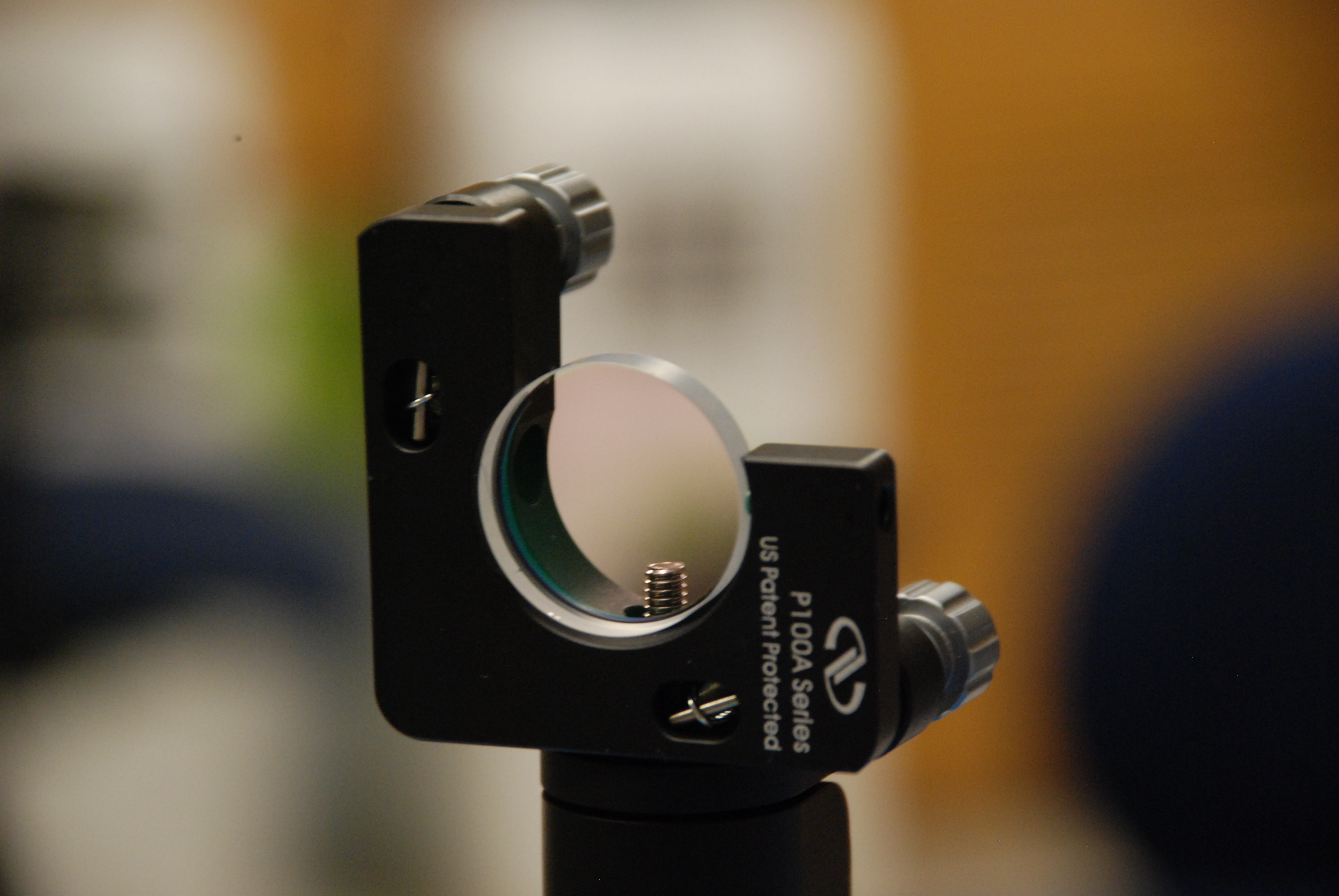 Glass beamsplitter for cold atoms experiments (780 nm AR coated).